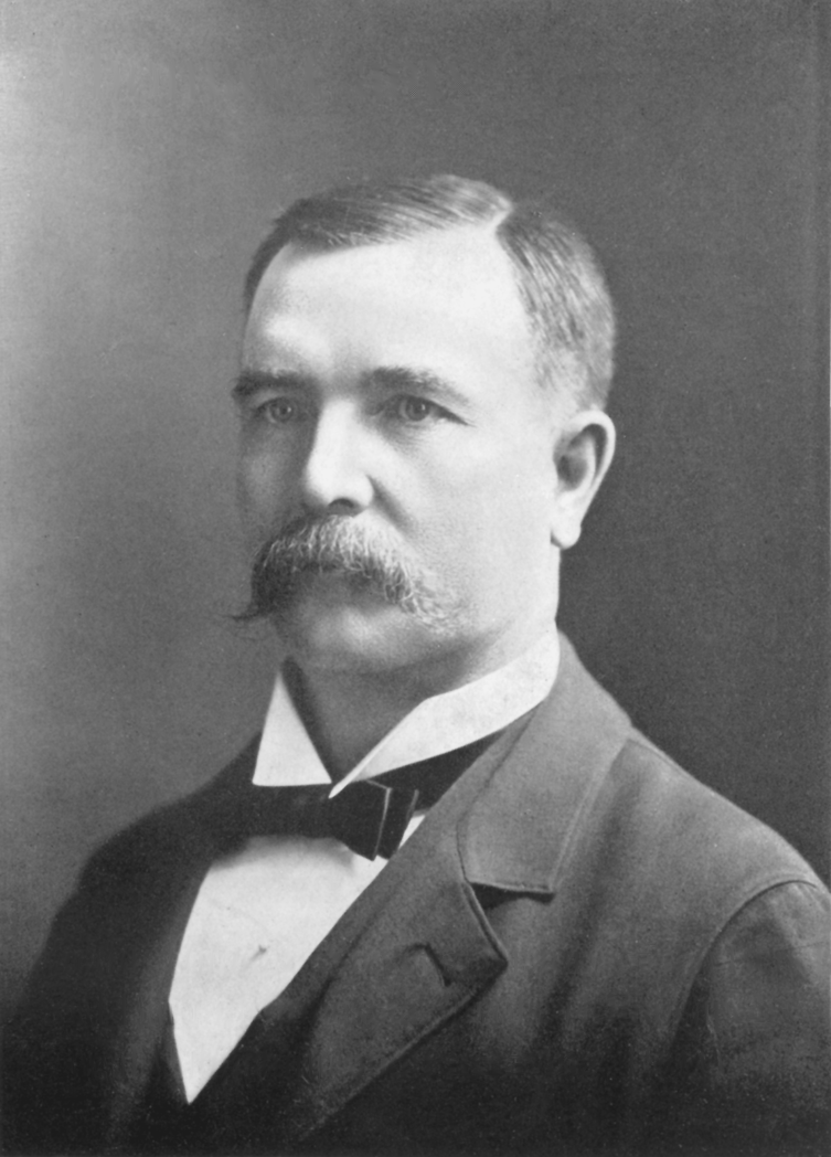 Thomas Canty was a justice of the Minnesota Supreme Court